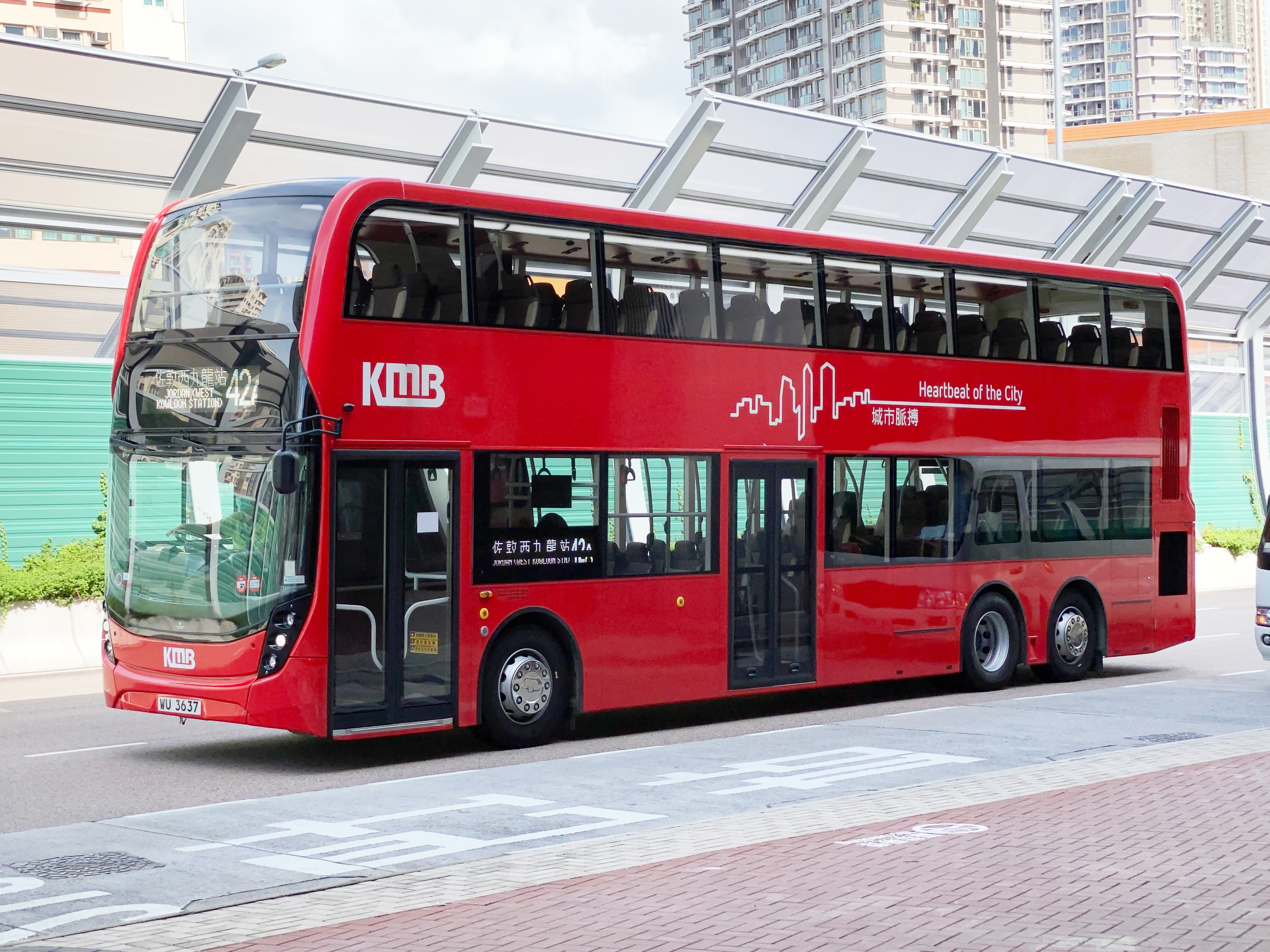 中文（香港）: This photo is taken in West Kowloon Station.